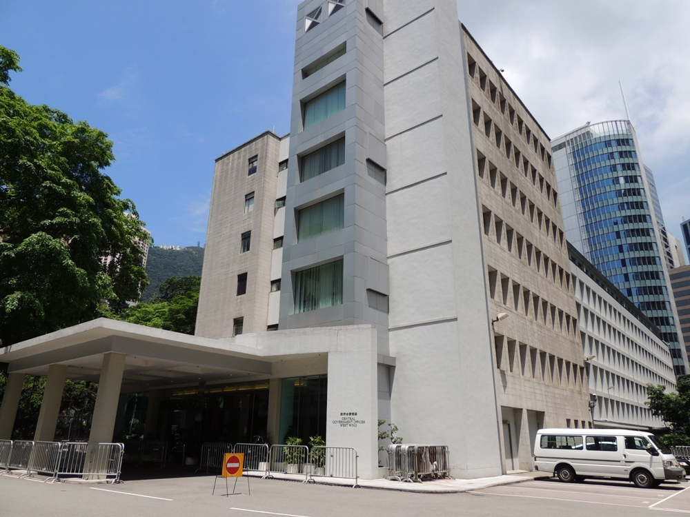 West wing, Central Gov. Offices